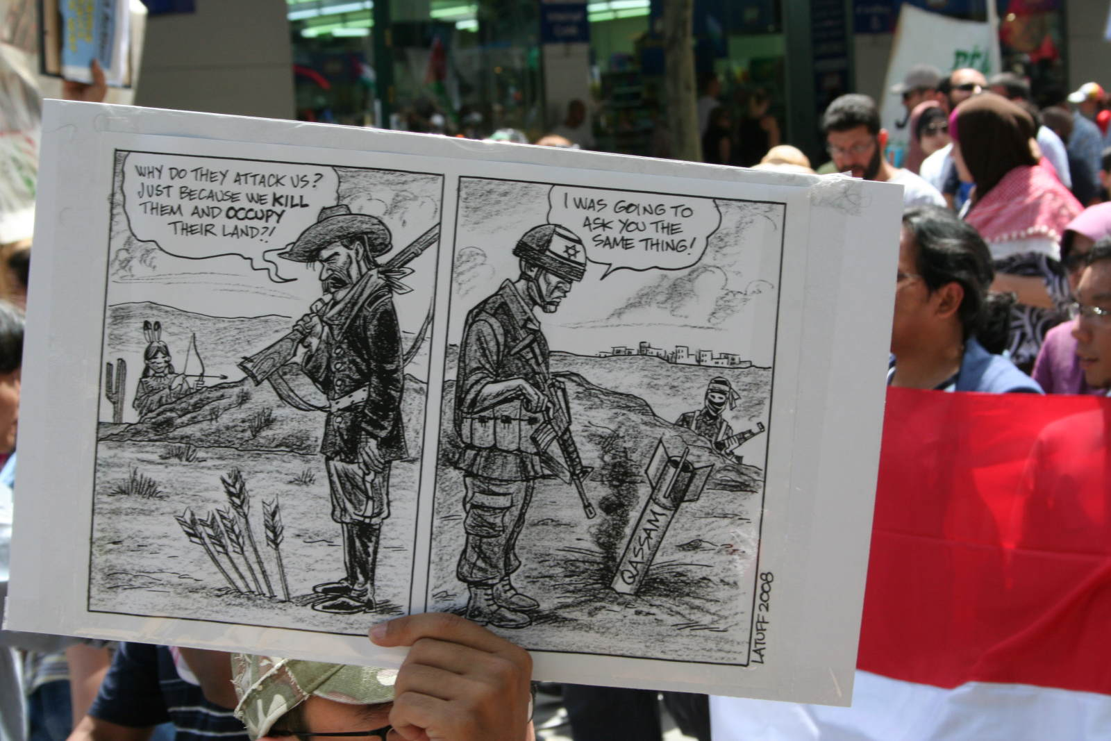 Protest against the Israeli attack on the Palestinians of Gaza held at the Melbourne State Library 4 January 2009 A handmade placard of a work by Brazilian cartoonist Latuff who said in Latuff: Cartoonist in Conversation, Dec 18, 2008 in Forward, a Jewish Daily: My cartoons have no focus on the Jews or on Judaism. My focus is Israel as a political entity, as a government, their armed forces being a satellite of U.S. interests in the Middle East, and especially Israeli policies toward the Palestinians. It happens to be Israeli Jews that are the oppressors of Palestinians. See other examples of Latuff's cartoons at Deviant Art View the slideshow or see the photo set. View 3 videos: union speaker, FAMSY speaker and highlights of rally and march on Takver's Youtube channel.